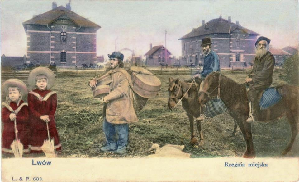 Новая резня во Львове, коллаж, еврей на лошади позади известен по многим фото. (В частности - Mein Osterreich mein Heimatland. B. 2. Wien, 1916 - S. 414)